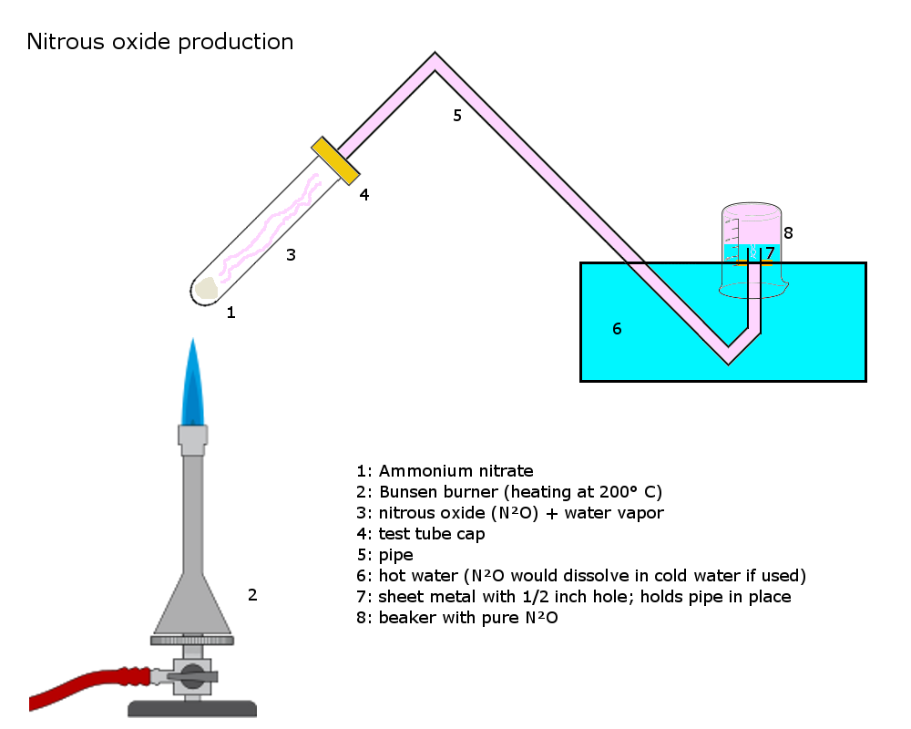 A schematic showing the (laboratory) production of nitrous oxide. This setup is the same one Joseph Priestley used. The setup was made based on an image of the 1949 Popular Mechanics article by Kenneth M. Swezey (titled: The gas that makes you laugh). Images from were used to make this image. Note that the setup shown here is not suitable for large scale production, since the heating needs to be kept at 200°C (meaning the flame of the bunsen burner needs to be constantly increased/decreased). The use of a regulatable, automated electric heater (with imbedded temperature meter, reducing or increasing the heat to attain a certain temperature) would be better instead. In addition, if the nitrous oxide is intented to be used as an emissionless fuel, the ammonium nitrate would first need to come from the ambient air (currently AN is often made from fossil oil).